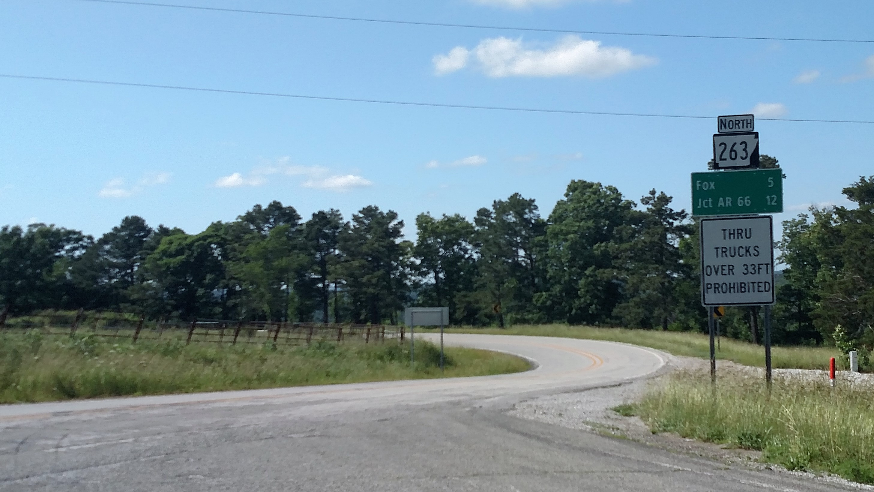 First reassurance marker for Highway 263 north of the Highway 9 overlap ending at Rushing, AR